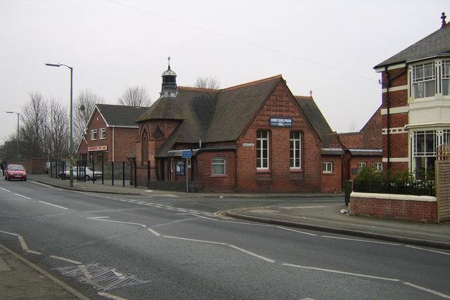 Shrewsbury Christadelphian Hall.